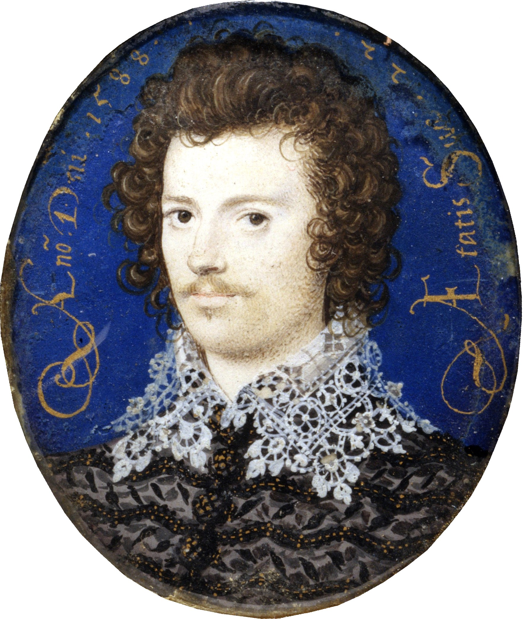 Portrait miniature of Robert Devereux, 2nd Earl of Essex (1565–1601). Inscribed "Ano.Dni.1588 Aetatis Sue 22". (Hearn, Karen: Nicholas Hilliard, Unicorn Press, 2005, ISBN 0906290821)